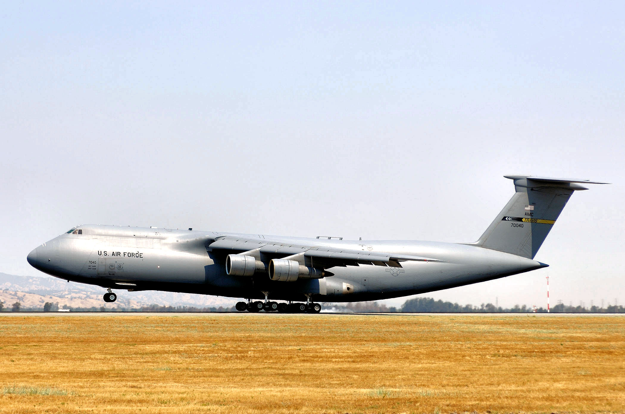 TRAVIS AIR FORCE BASE, Calif. -- Off we go again: This C-5 takes off from the Travis flightline, Jun. 13. Staff Sgt. Robert Rossman, 70th Air Refueling Squadron and Master Sgt. Rob Tabor, 60th Operation Support Squadron, volunteered to take some photographs for the 301st and 312th Airlift Squadron's to use around the squadron and in mission briefing power point presentations. These photos, along with other great aircraft photos are available for use on the 349th wing shared drive. (U.S. Air Force photo/Master Sgt. Rob Tabor)